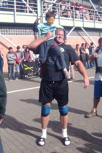 Con el menos fuerte al hombro. / David Ostlund - a strength athlete from the USA